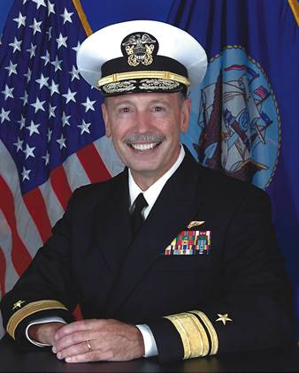 DoD picture of RADM Gar Wright, USN